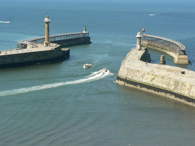 Whitby Harbour mouth. Looking down at the mouth of the harbour and River Esk, from the churchyard of St Mary's on the eastern clifftop.